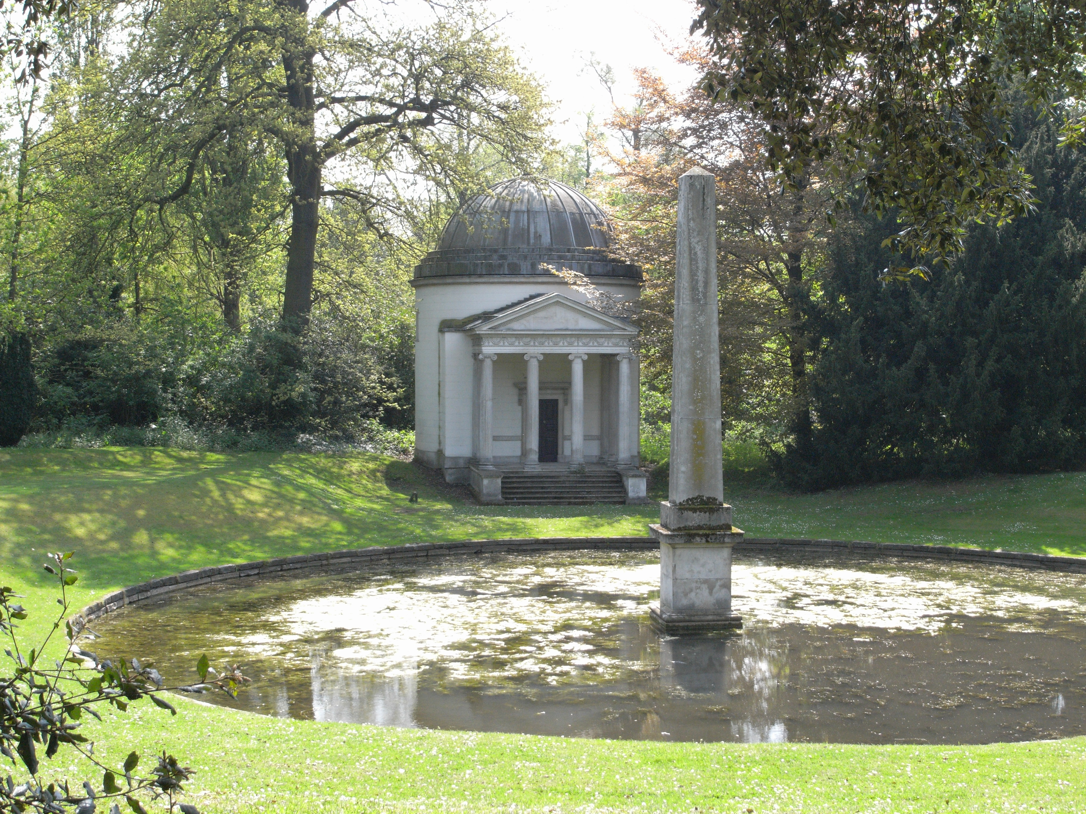 Chiswick House: the Ionic temple.